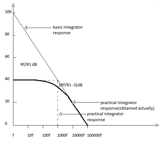 Frequency response of ideal and practical integrator using op amp